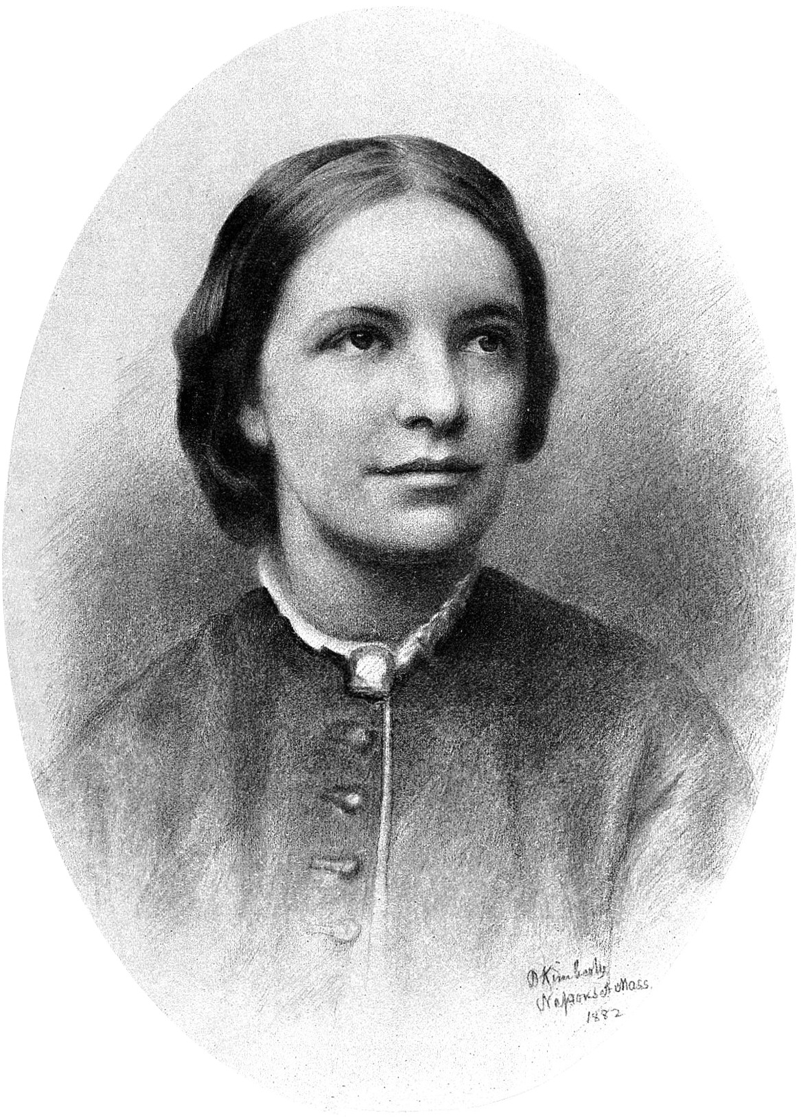 Portrait of Octavia Hill